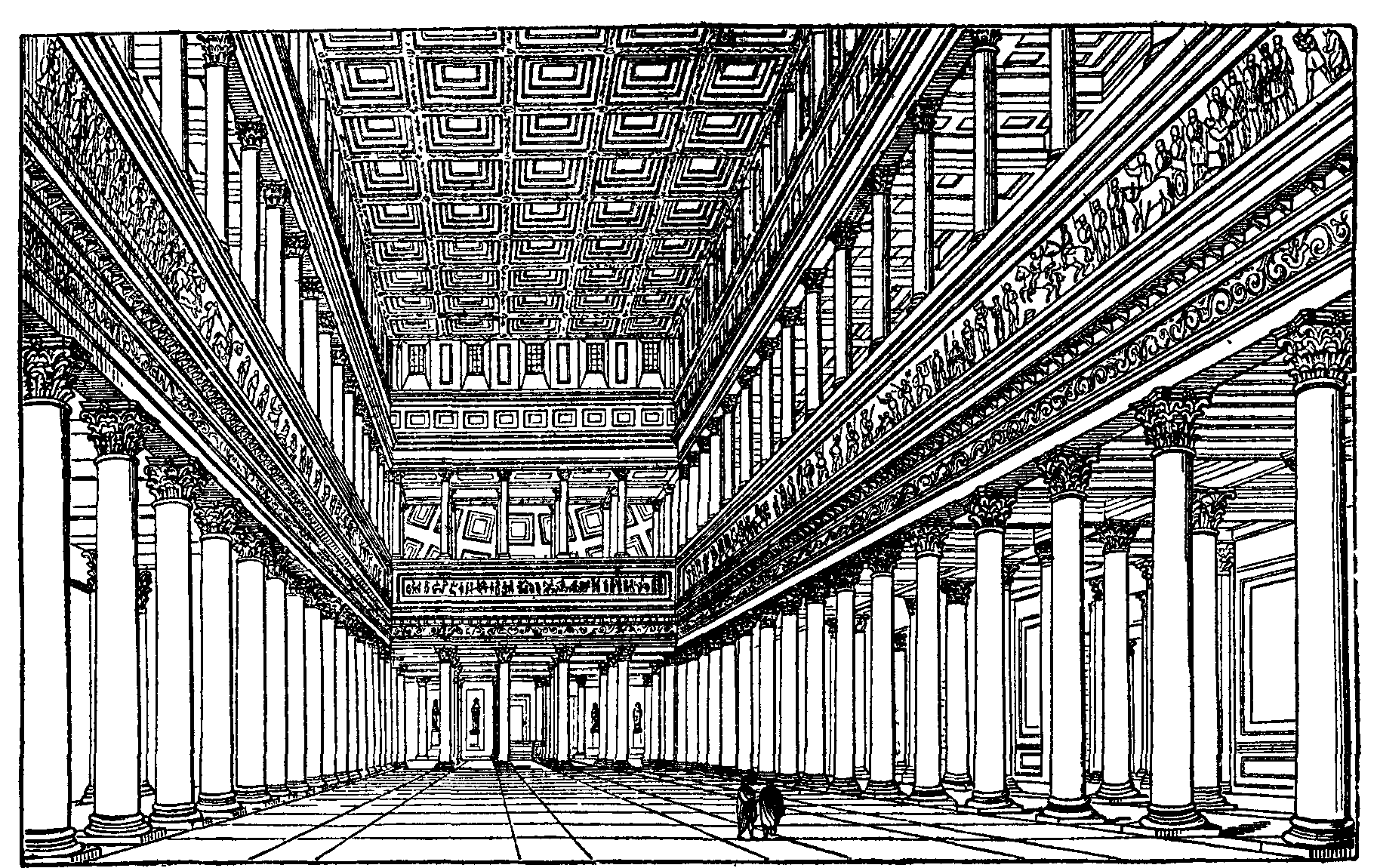 Illustration from 1911 Encyclopædia Britannica, article BASILICA. Fig. 4.—Interior view of Trajan's Basilica (Basilica Ulpia), as restored by Canina.